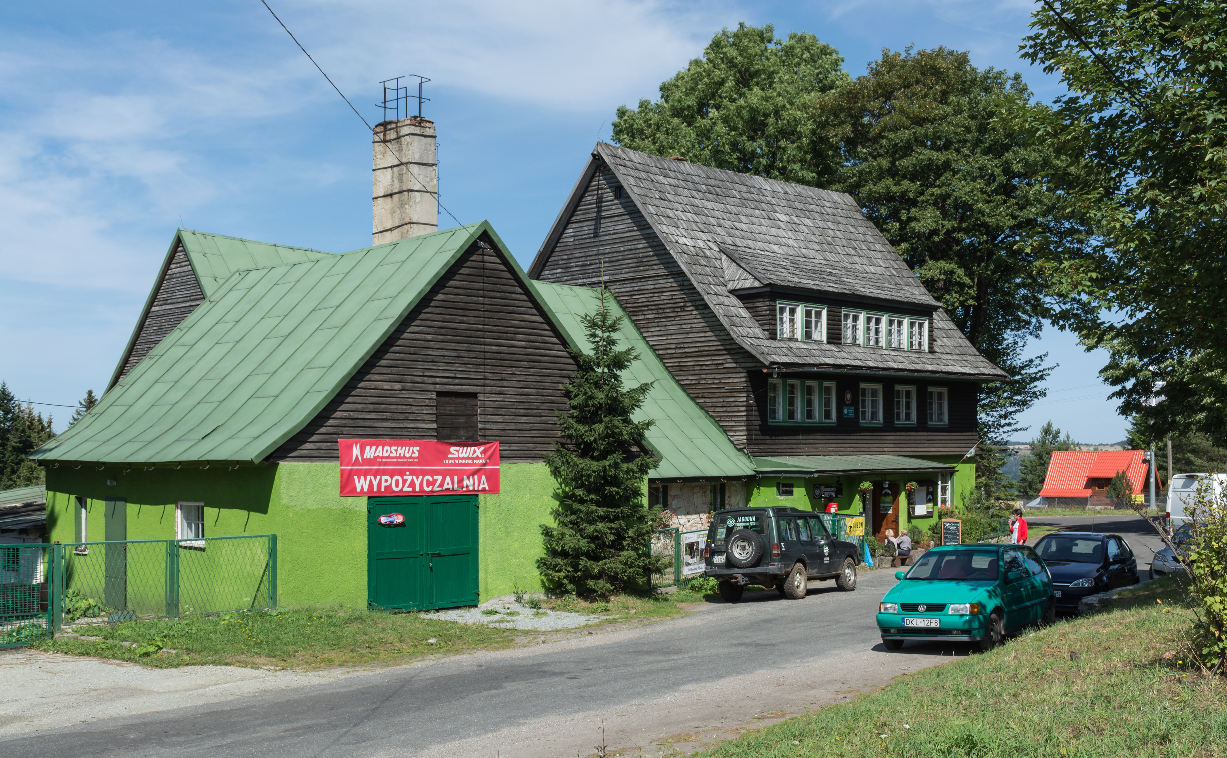 Jagodna Hostel